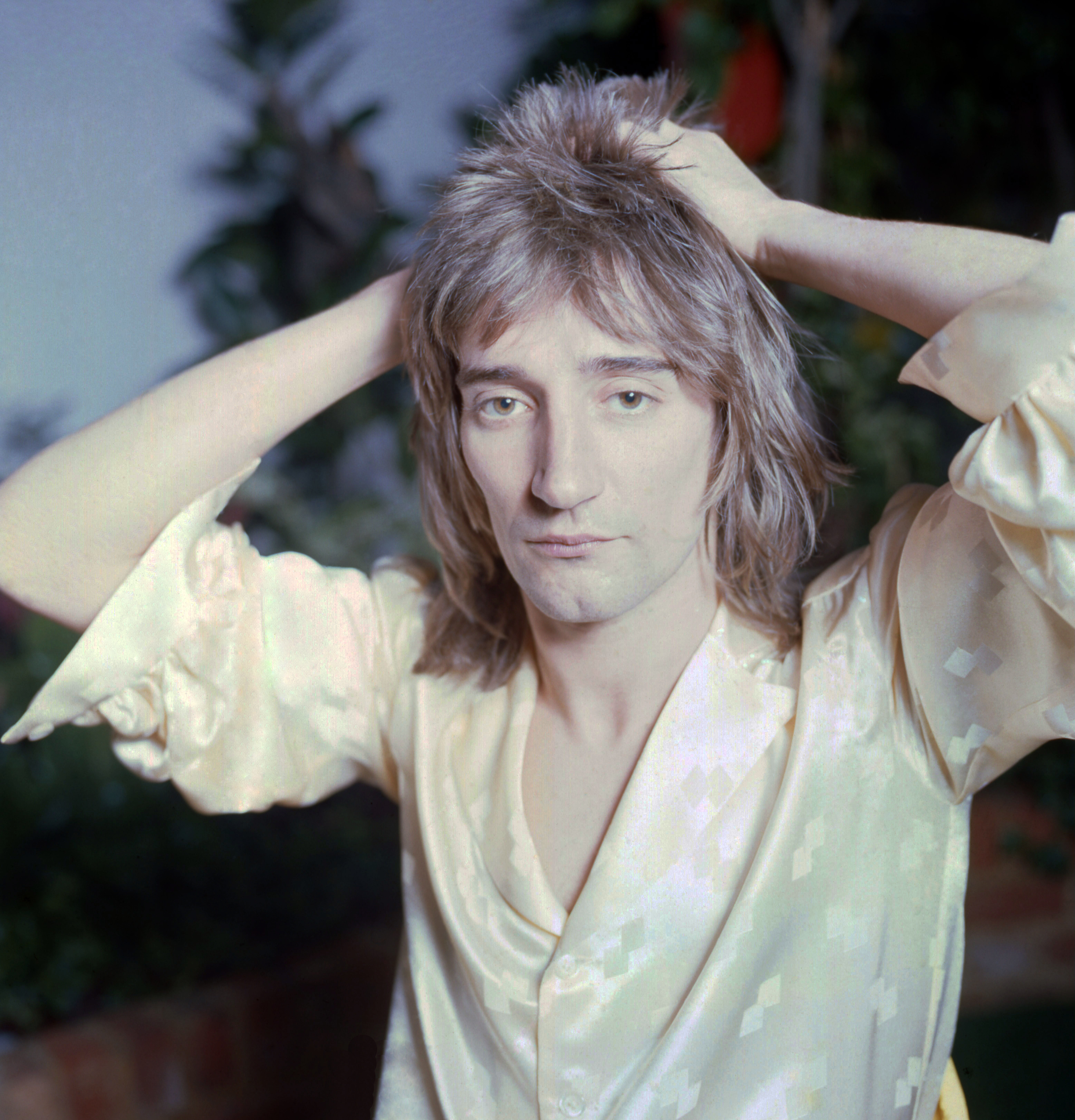 Rod Stewart, taken at his London Home.